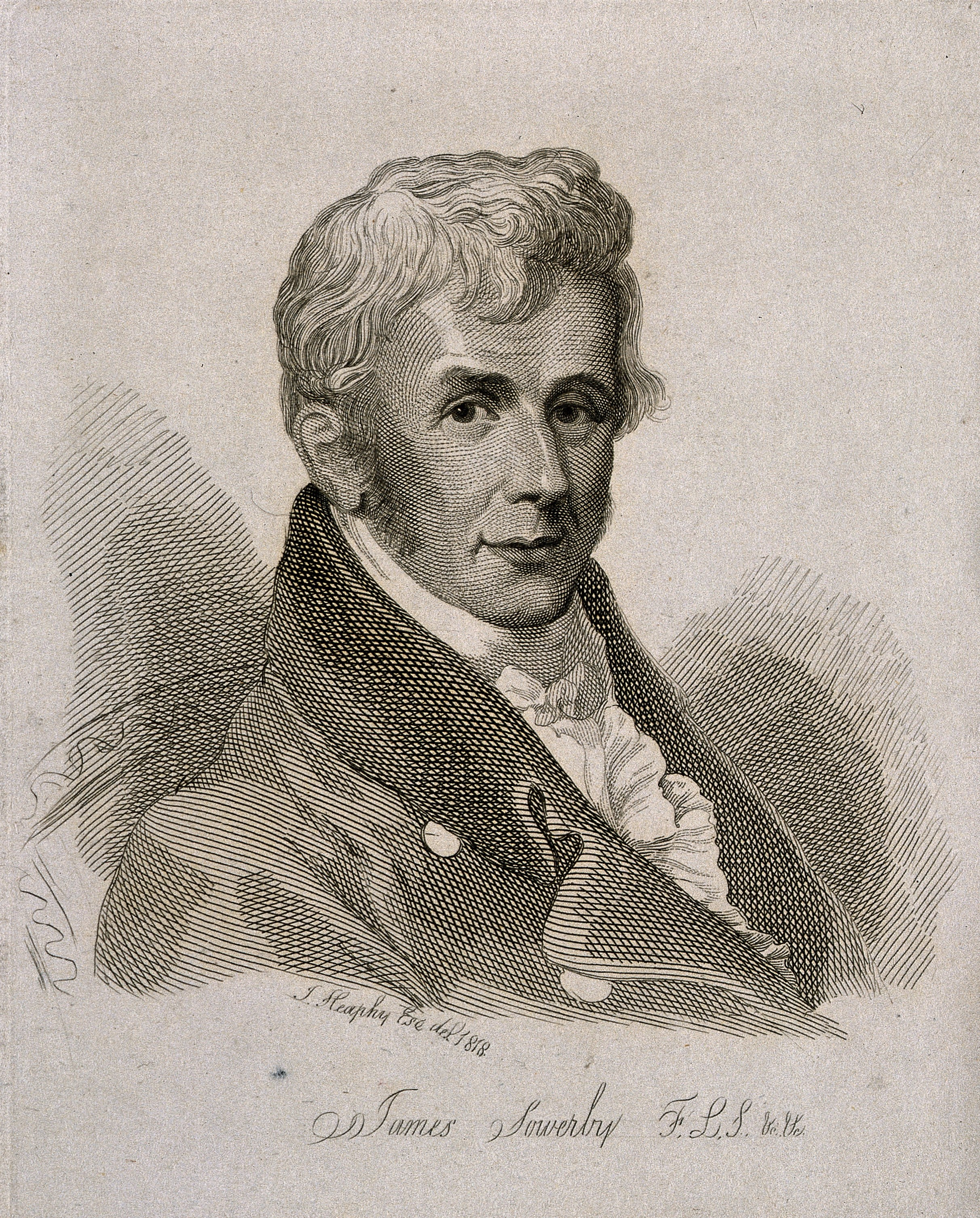 James Sowerby. Line engraving by Mrs D. Turner after T. Heaphy, 1818. Iconographic Collections Keywords: portrait prints; engravings; James Sowerby